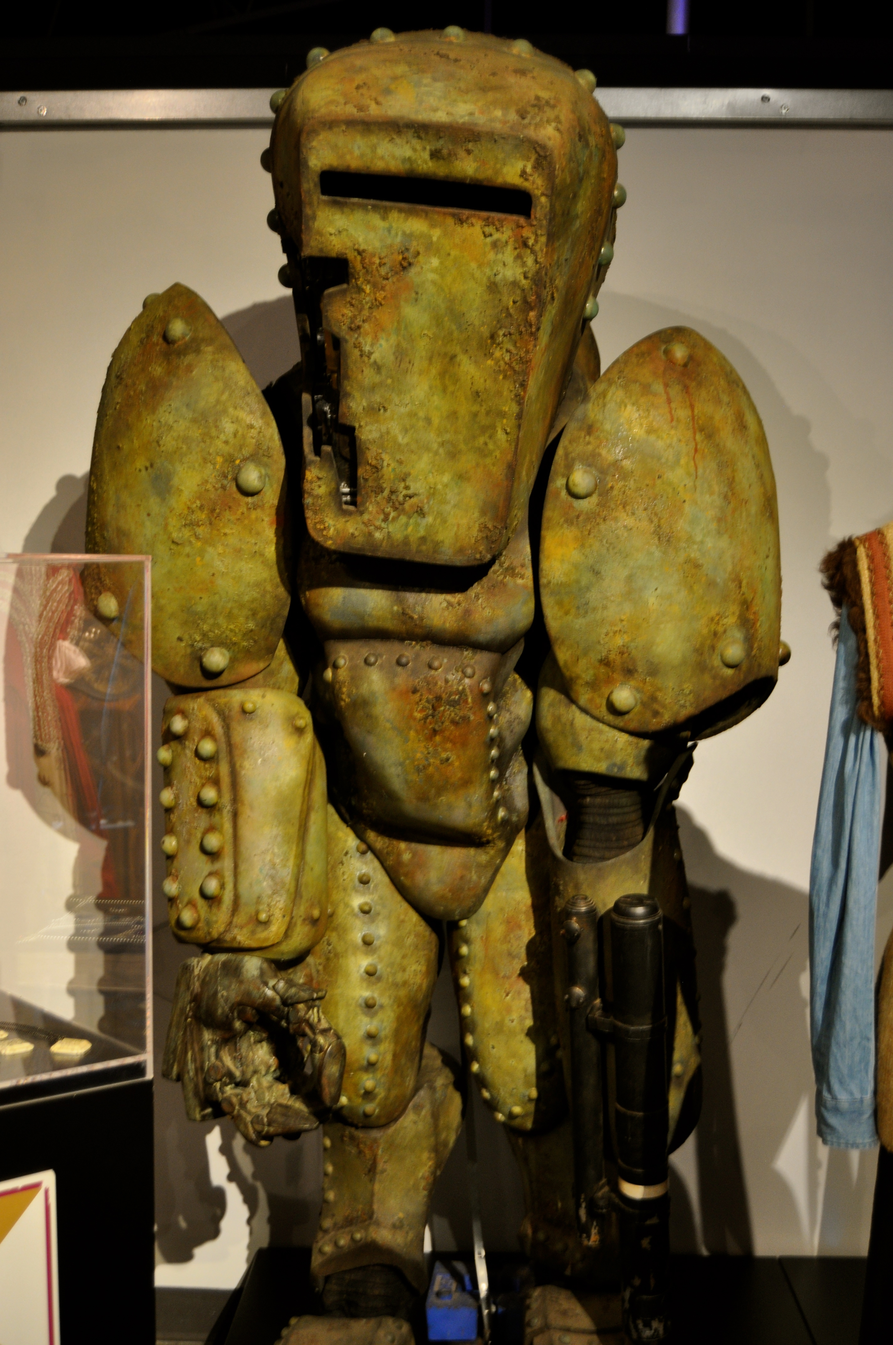 DWE Cardiff Bay, Port Teigr November 2016 Doctor Who Experience